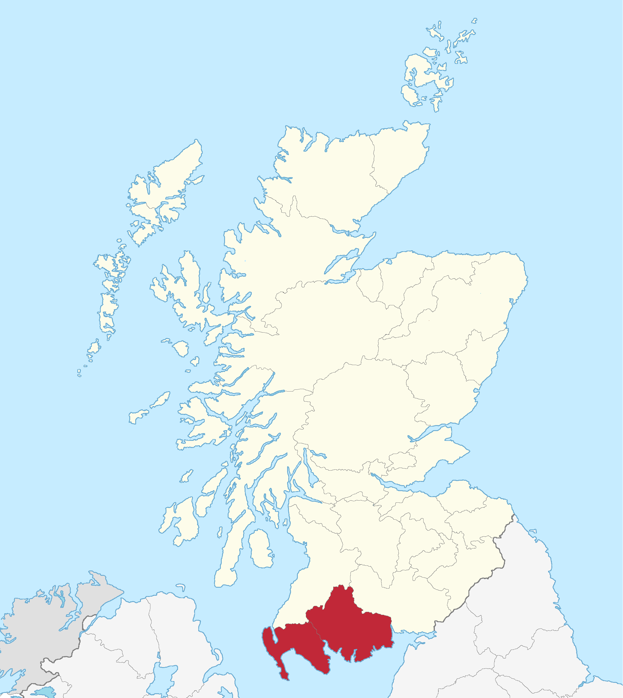 The two counties of Galloway